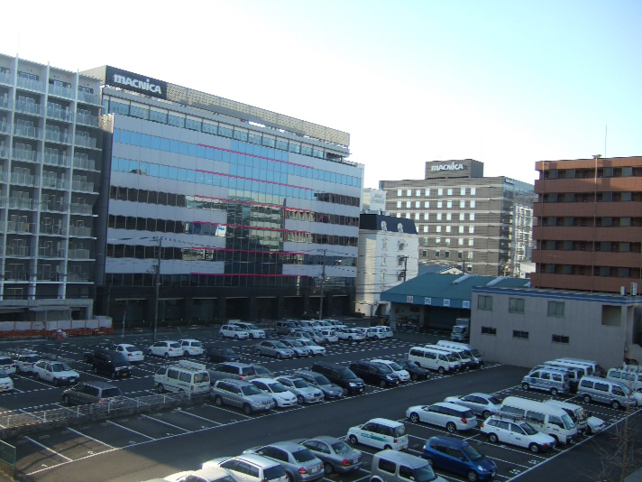 マクニカ本社。神奈川県横浜市 The head office of Macnica, Inc., in Yokohama, Kanagawa, Japan